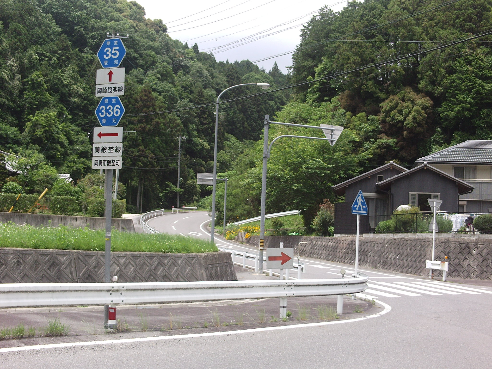 Aichi prefectural road No.336 in Kajinocho, Okazaki, Aichi.